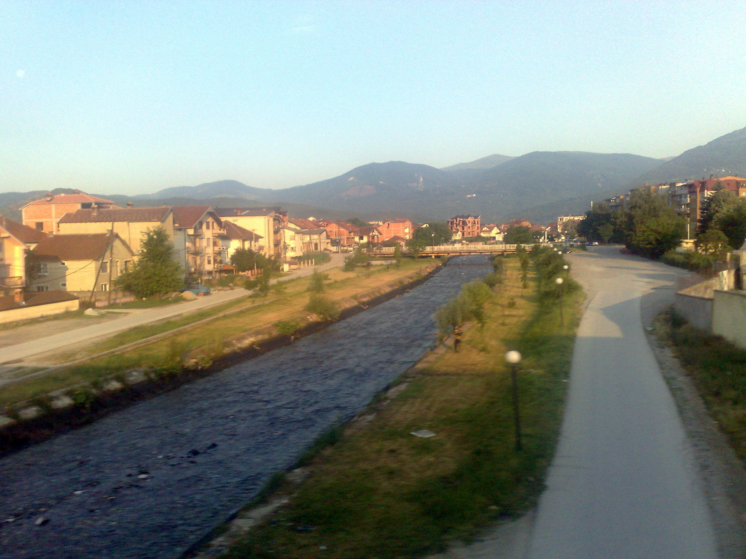 Vardar river in Gostivar, Macedonia